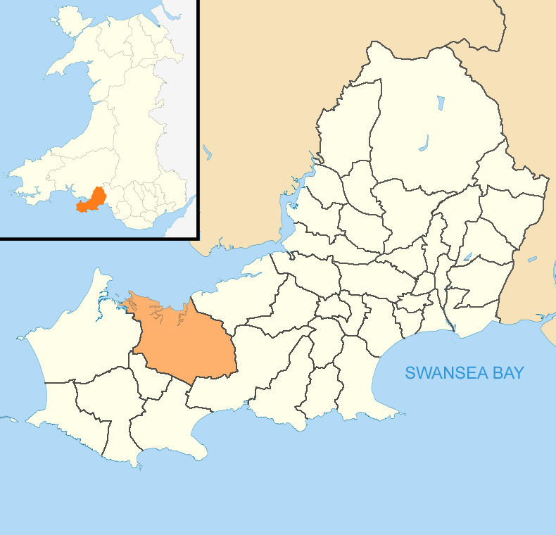 Location map of the community (civil parish) of Llanrhidian Lowe in the City and County of Swansea, Wales